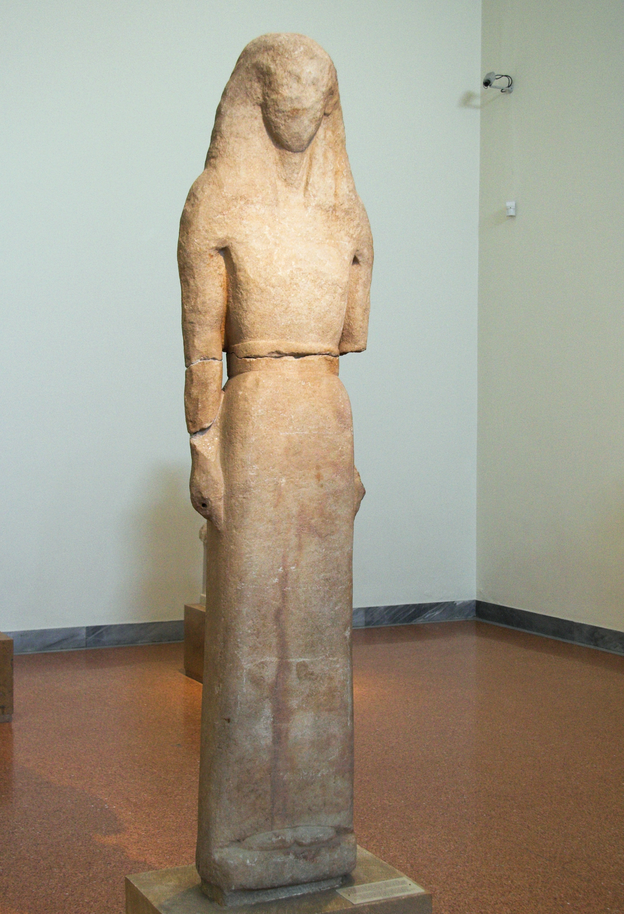 "Nikandra of Naxos for Artemis on Delos." Early Naxian work circa 650 BC; slightly larger than life, at least vertically. Flat styling, high 1,80 m. Naxian girl donated to the temple of Artemis on Delos that its idealized form. Noticeable is flat stylization, almost reminiscent of ancient Cycladic idols. Found 1878 at Delos. National Archaeological Museum Athens, NAMA 1.